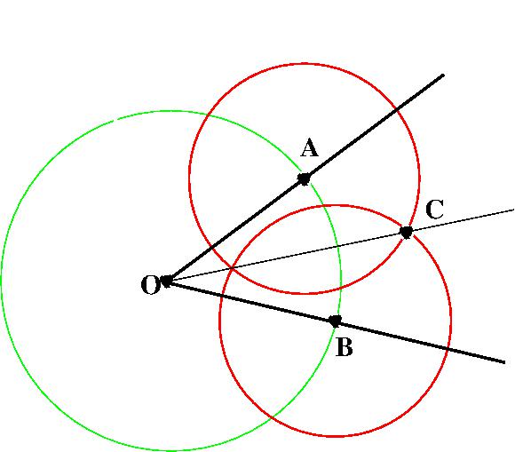 Bisection of angle by geometric method.